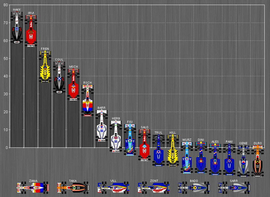 chart of final standings of 1999 Formula One season